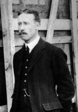 John William Dunne (1875–1949), Anglo-Irish aeronautical engineer and author